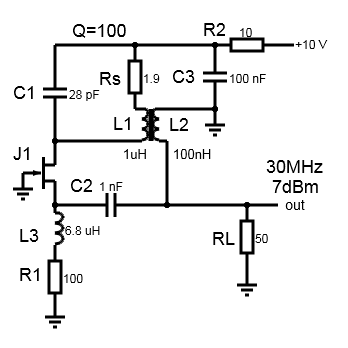 Meissner (Armstrong) oscillator schematic with JFET in common gate configuration